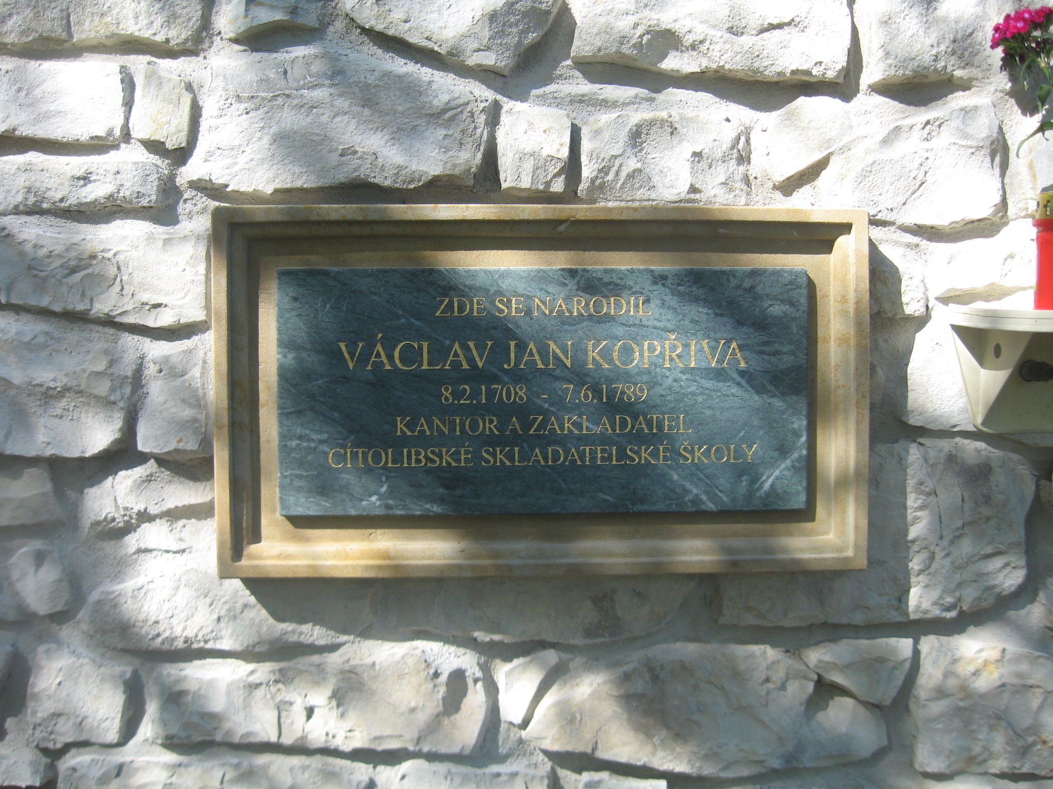 The Plaque of the composer Václav Jan Kopřiva in Brloh